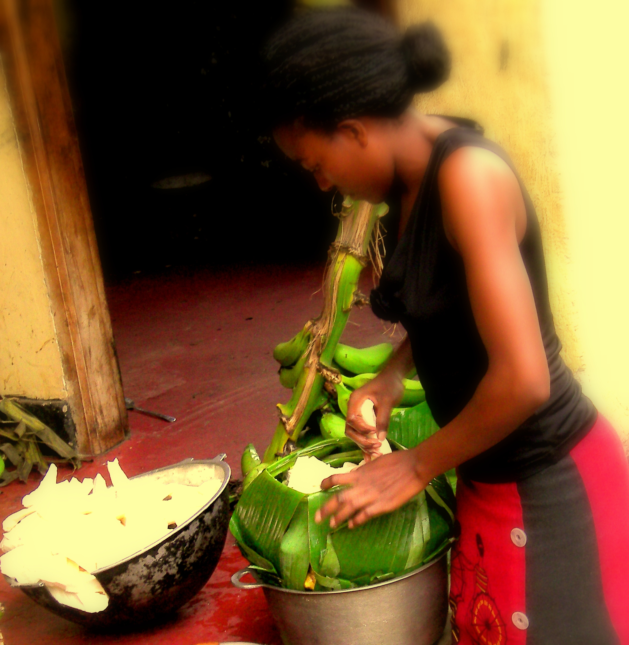 Matooke is wrapped in banana leaves and the cassava is also wrapped in bannana leaves and placed on top of the matooke. Water is powered beneath the saucepan and then placed on a stove. This is an image of food from Uganda